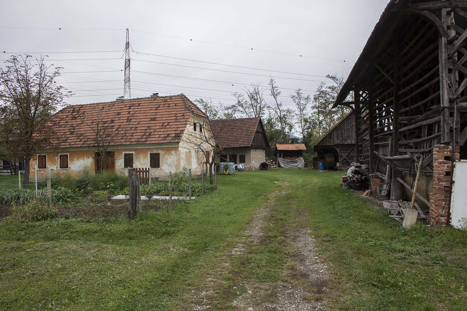 Old homestead, Žadovinek